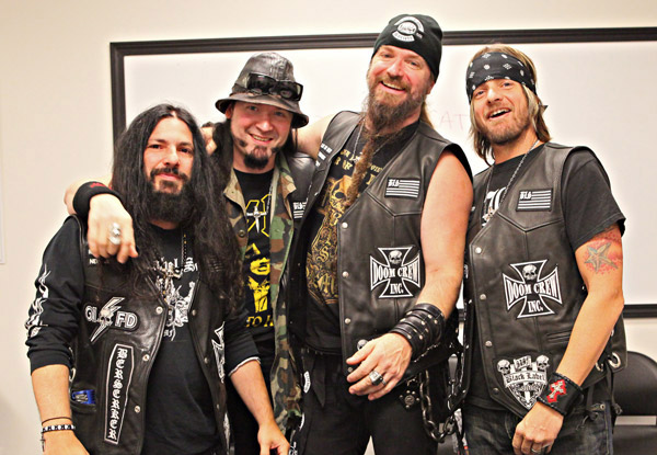 Black Label Society at Best Buy